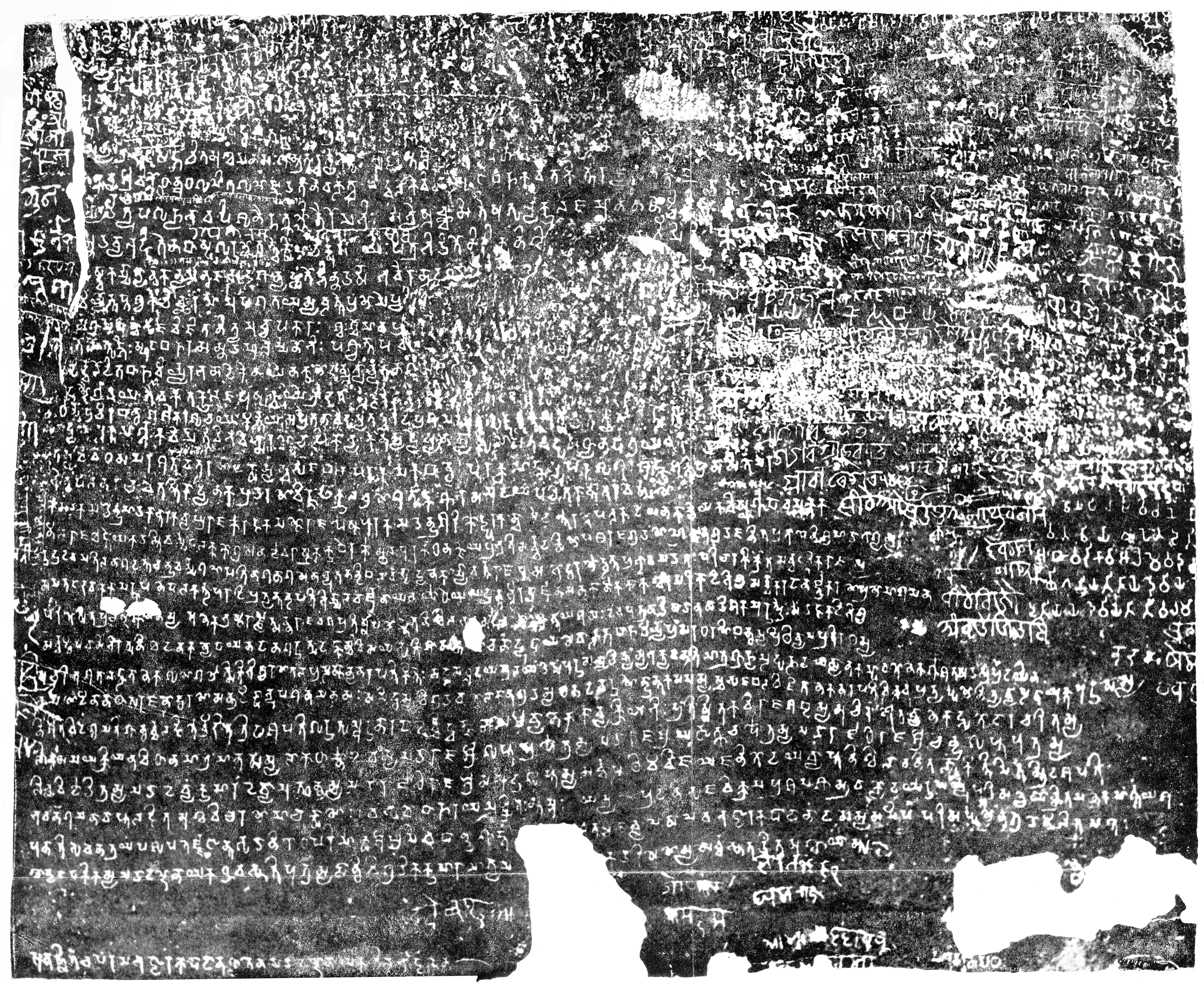 Allahabad stone pillar inscription of Samudragupta, 5th century CE